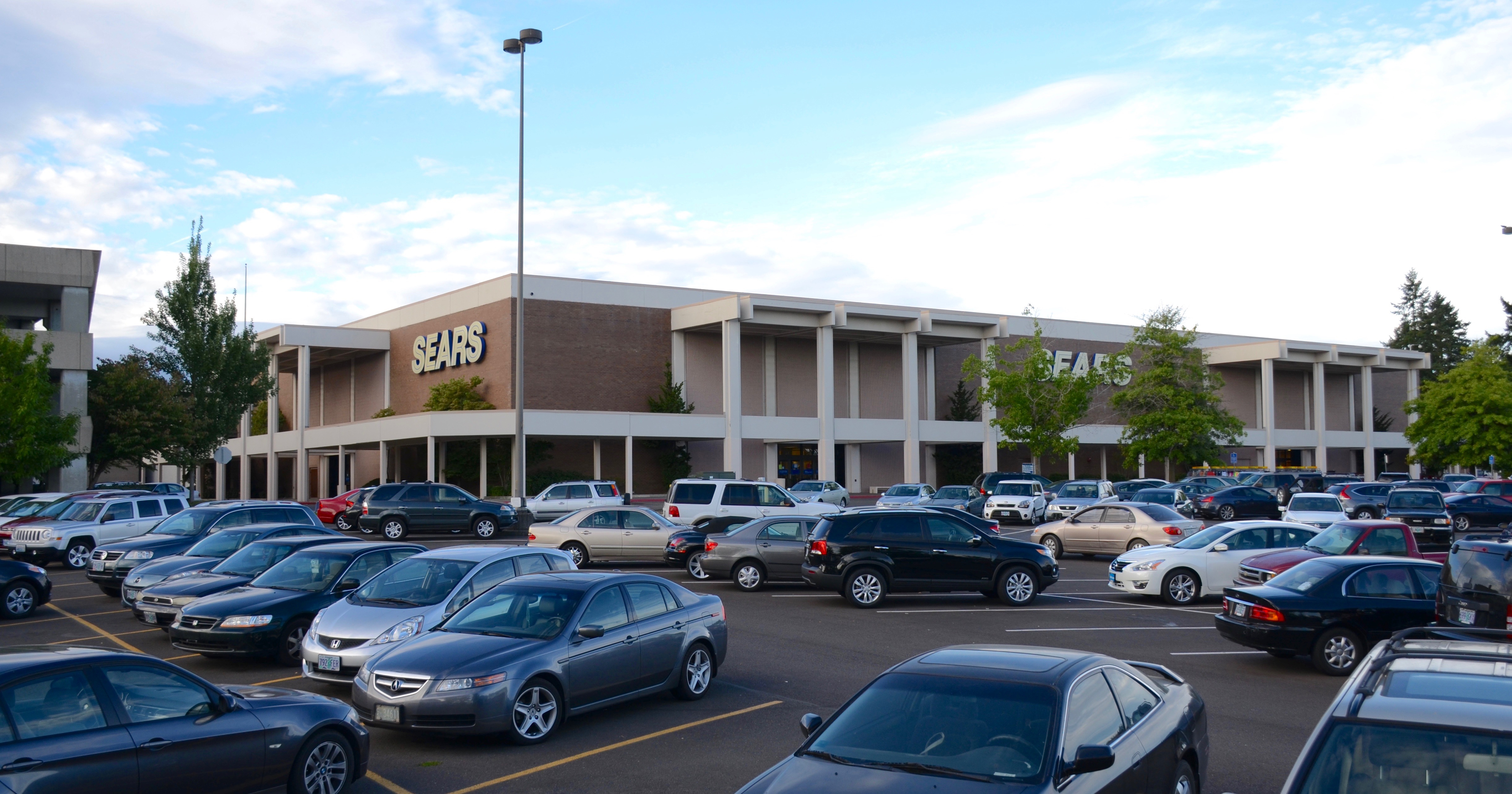 The Sears store at the Washington Square mall, in Tigard, Oregon (in the west-side suburbs of Portland). This view is from the southwest.